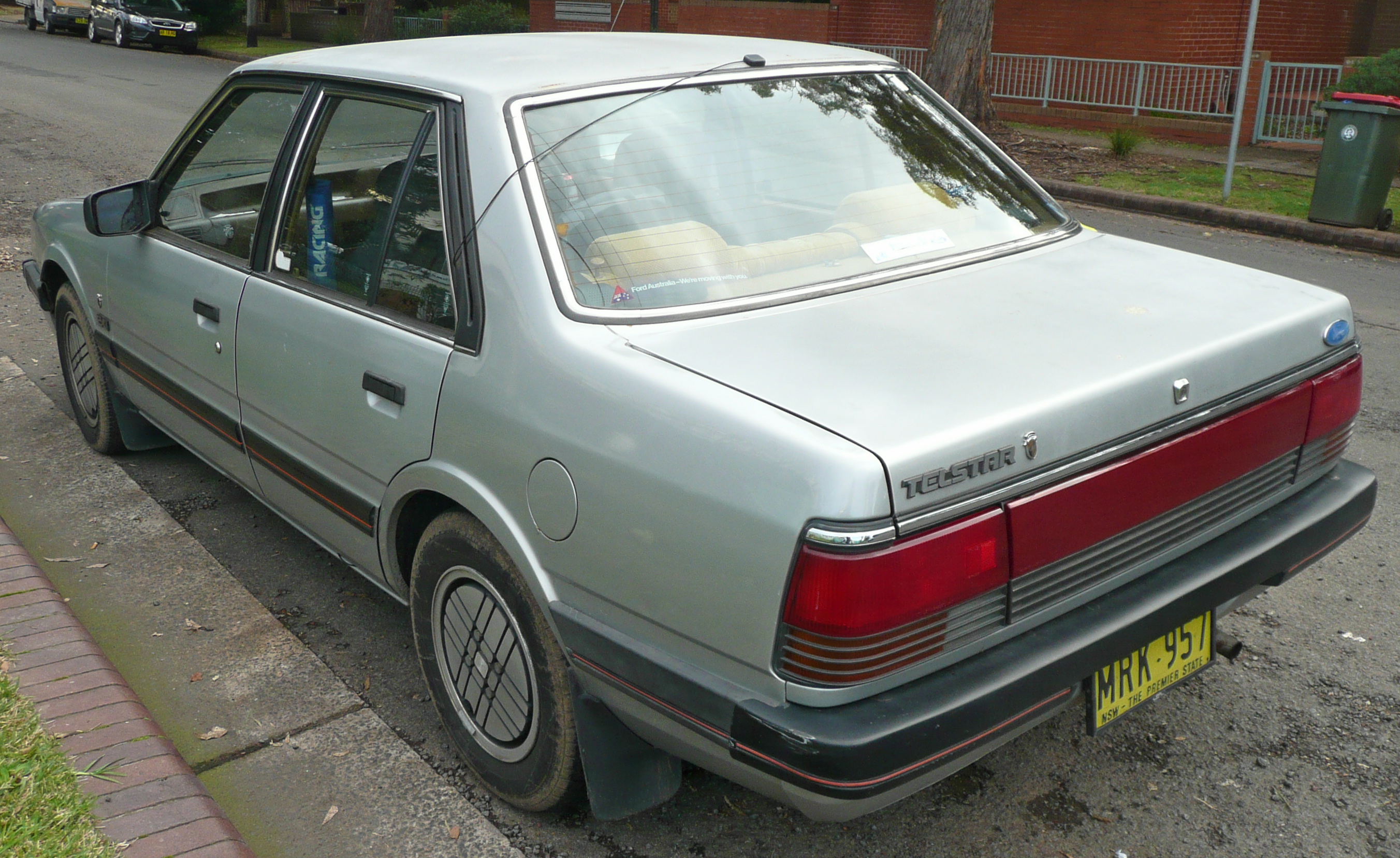 1983–1985 Ford Telstar (AR) Ghia sedan. Photographed in Sutherland, New South Wales, Australia.